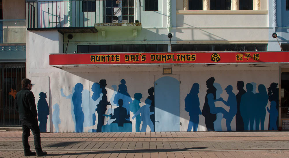 New Regent Street on a walk around the city to catch up on events happening June 18, 2014 Christchurch New Zealand. Two of Helen Thacker's shops that are unrepaired and boarded up.